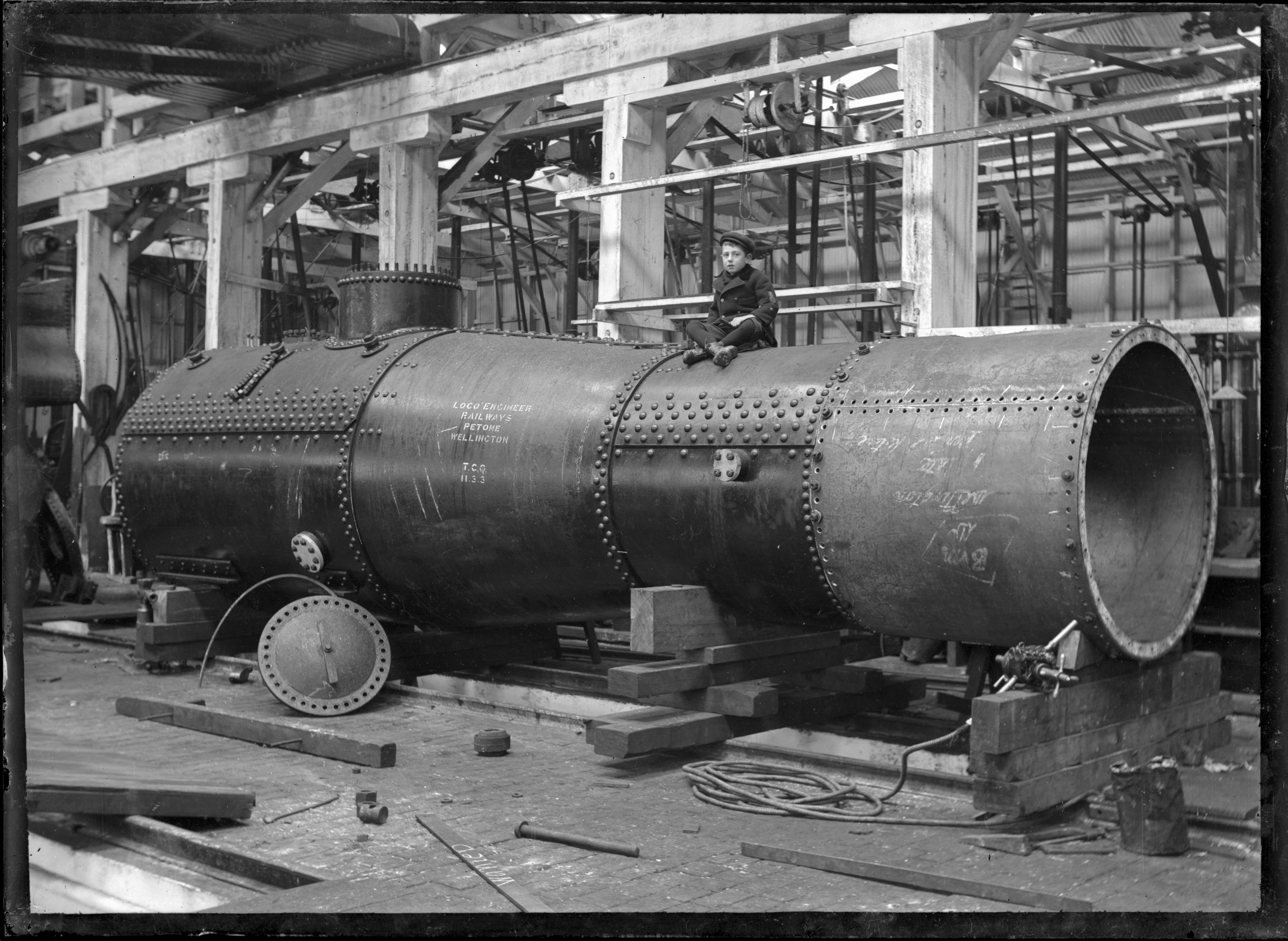 Firebox and Boiler for Locomotive Class 'E' number 66 (Pearson's Dream), Godber's son William Albert is sitting on top, in the Petone Railway Workshops. Photographed by Albert Percy Godber.